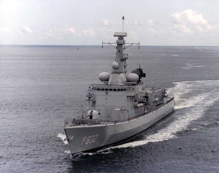 Dutch Karel Doorman-class frigate Abraham van der Hulst (1993)